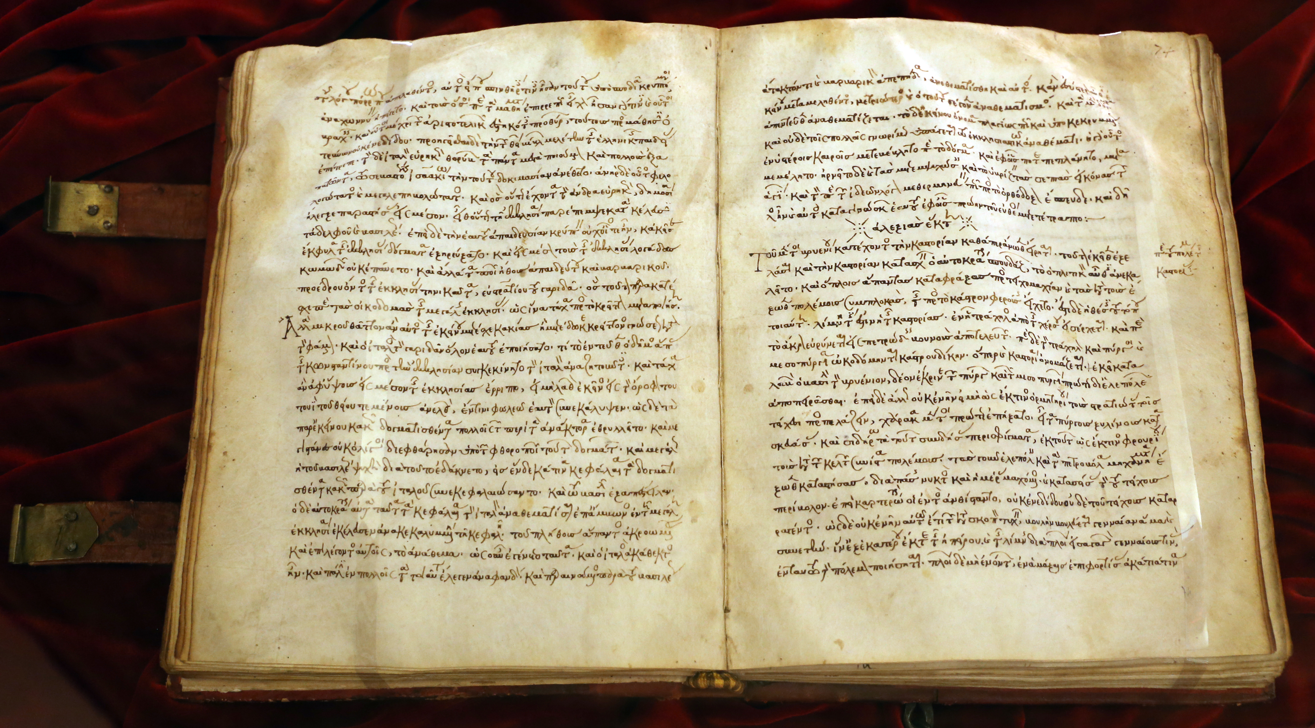 Biblioteca Medicea Laurenziana manuscripts BML catalogue reference: Note: catalogue dates it as 12th century